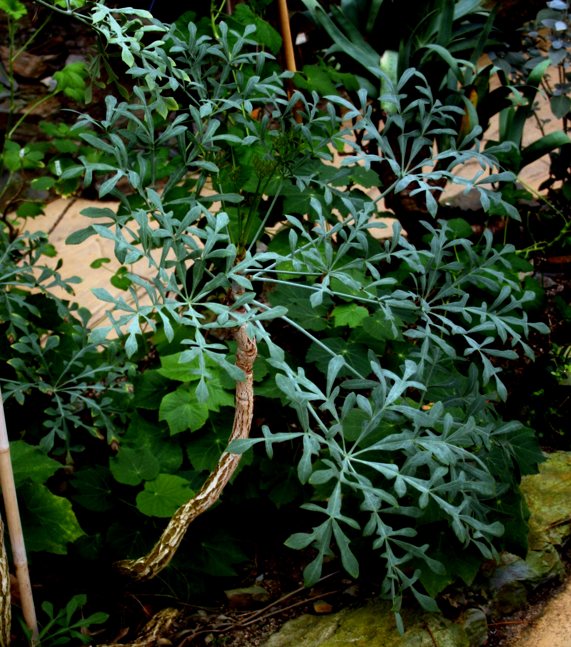 Cussonia transvaalensis Prague greenhouse Fata Morgana Date=January 2008 Author= Karelj